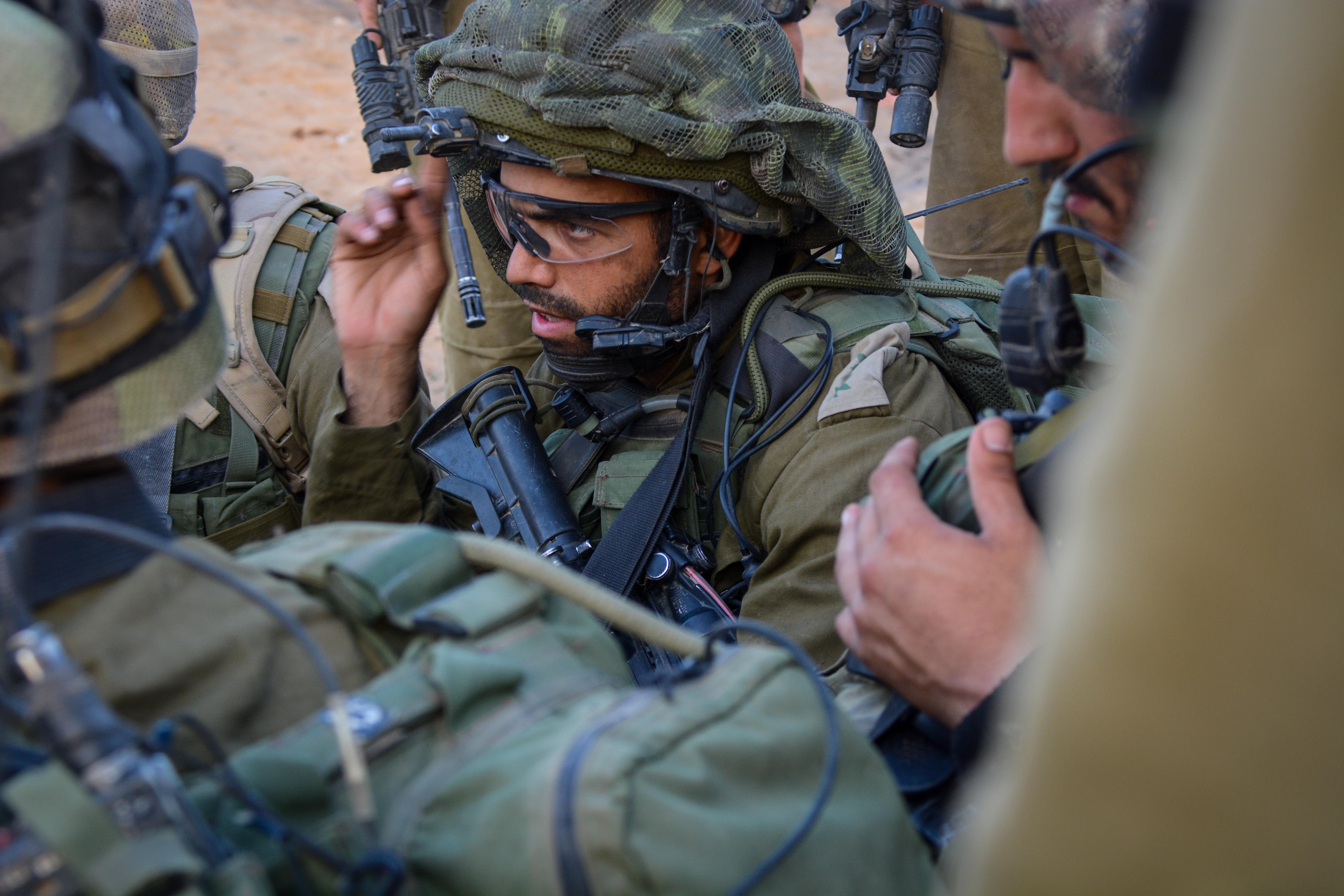 The IDF's paratroopers brigade operate within the Gaza Strip to find and disable Hamas' network terror tunnels and eliminate their threat to Israeli civilians. For more updates: The Israel Defense Forces Facebook The Israel Defense Forces blog Follow us on Twitter